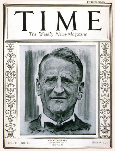 TIME Magazine Cover Featuring Carter Glass (9 Jun 1924)